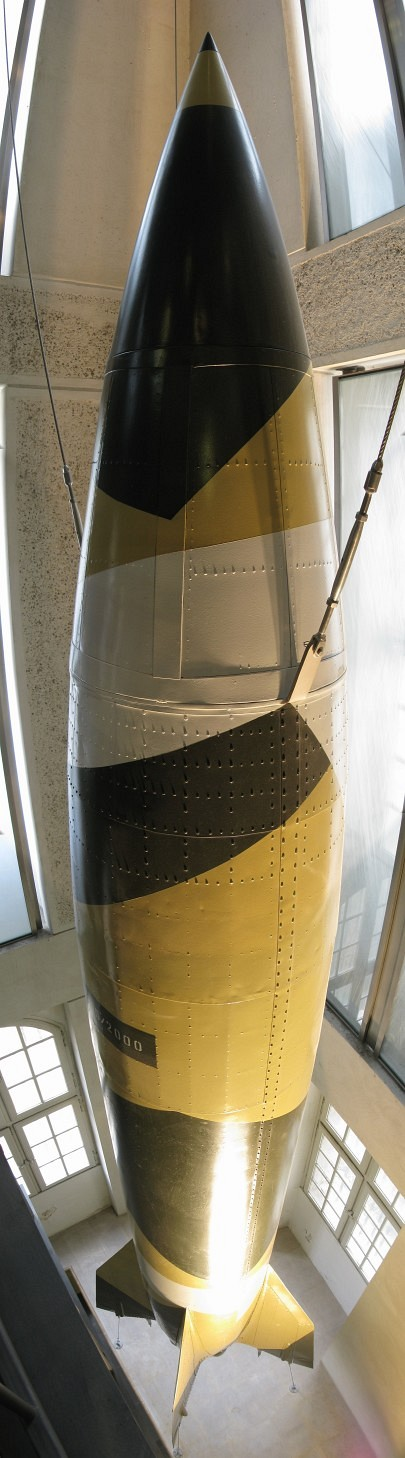 A V2 on display.